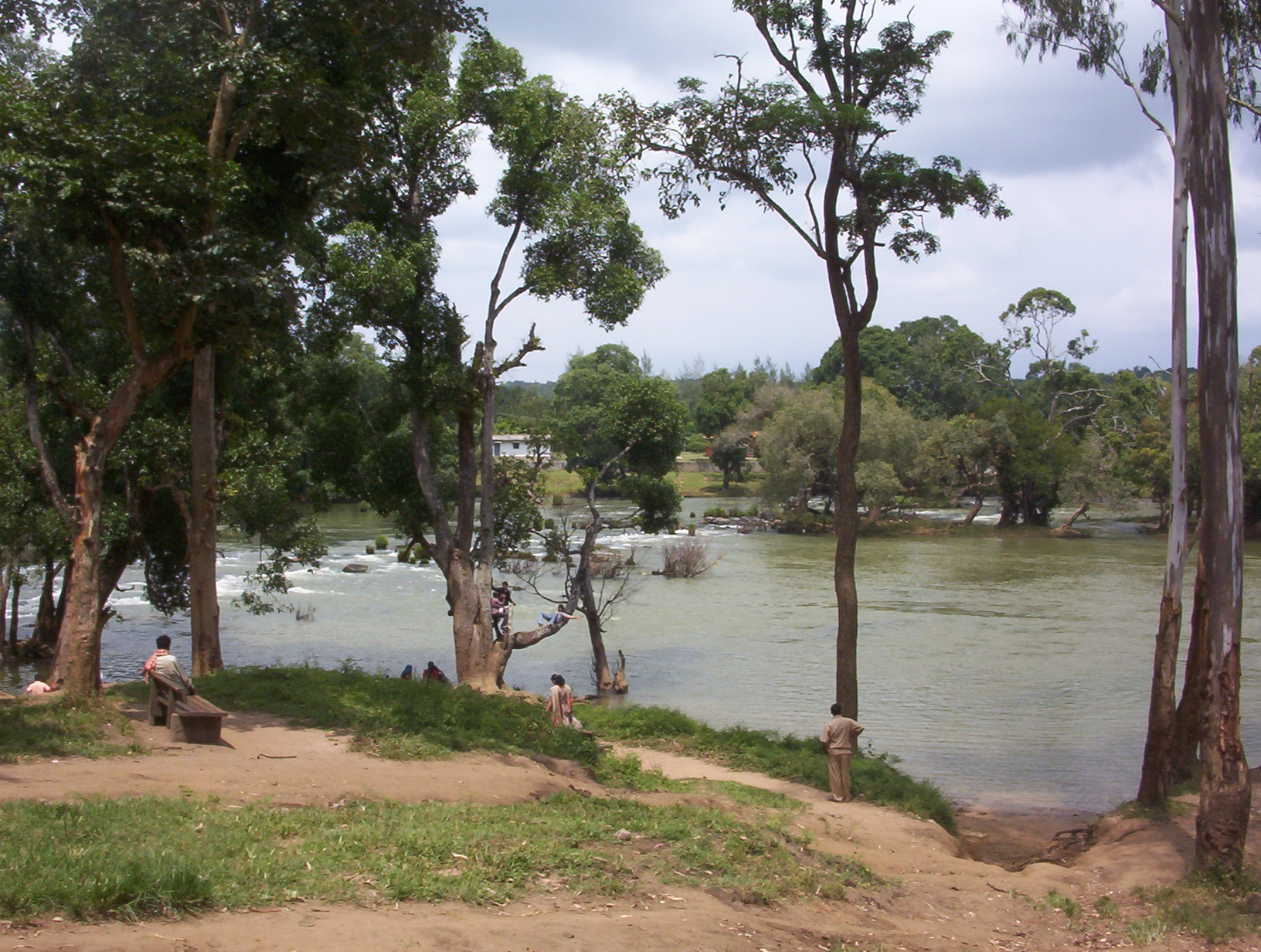 Dubare in Coorg (Kodagu). View of the river Kaveri.